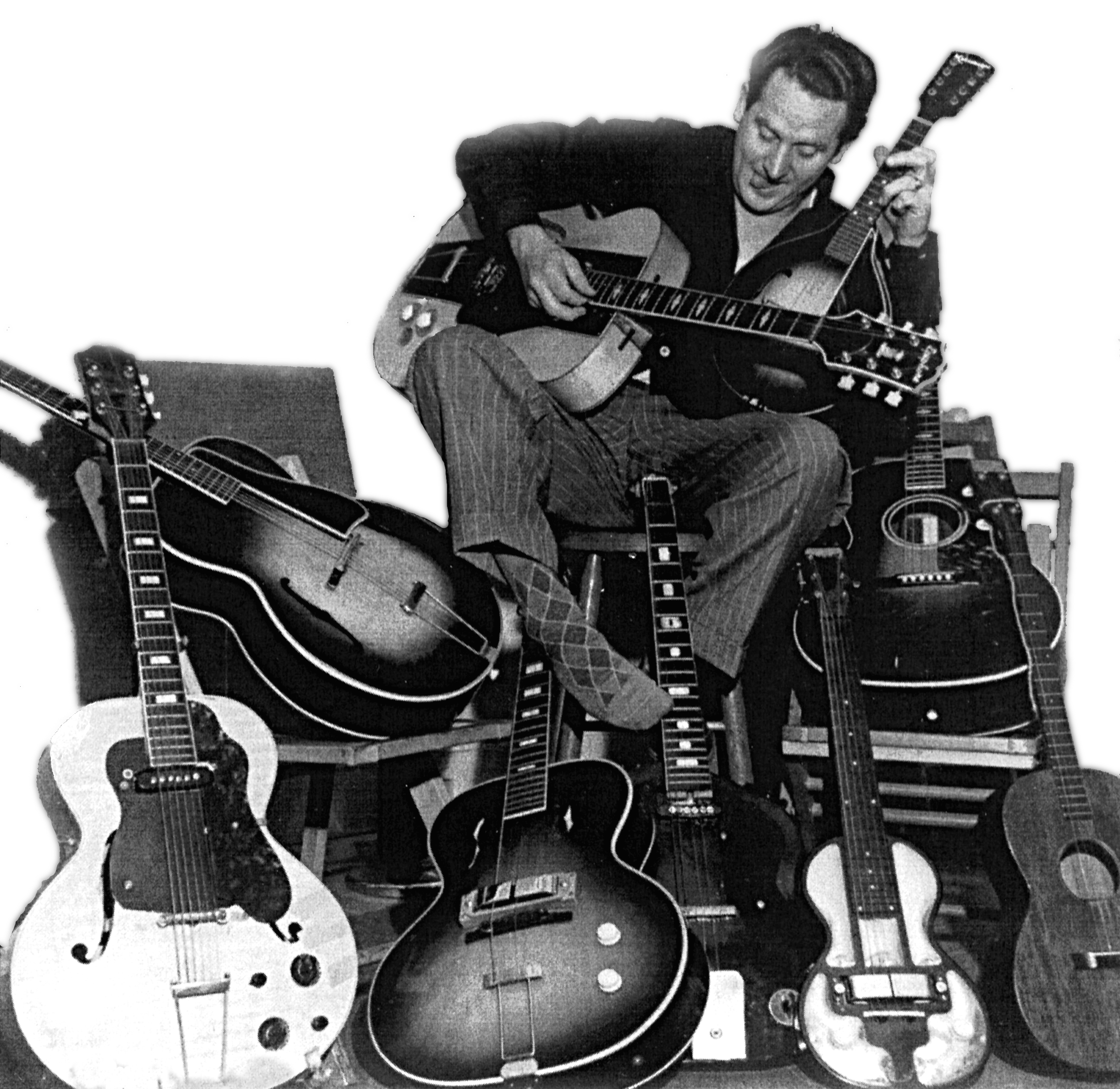 Lester William Polsfuss, known as Les Paul (June 9, 1915 – August 13, 2009). He wore some jive-ass socks, and he loved his guitars. Posted for dbuk2.